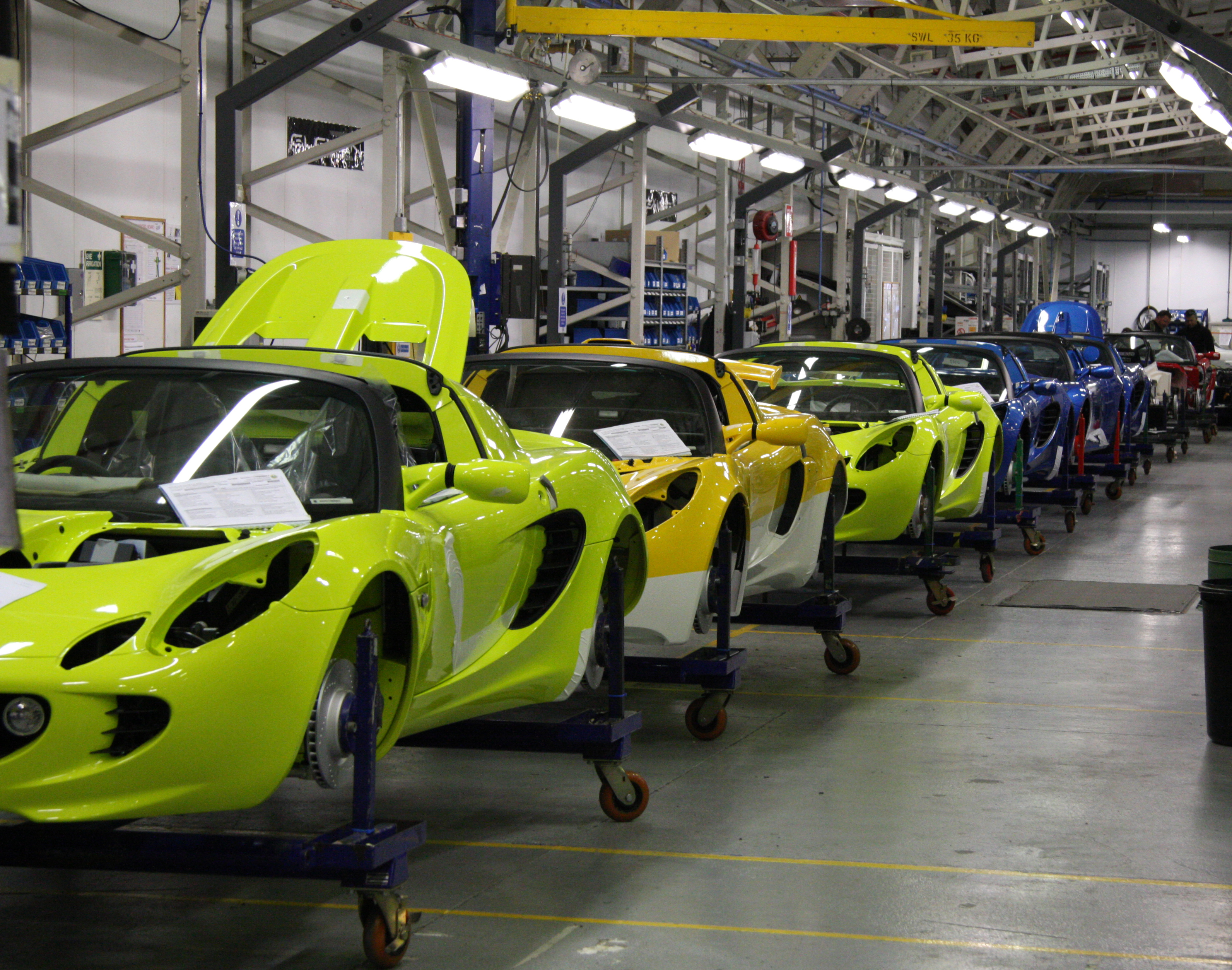 Lotus 60th Celebration